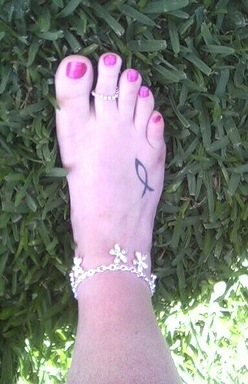 The picture shows an anklet with star thingies, a toering, a tattoo, and red-painted toenails.